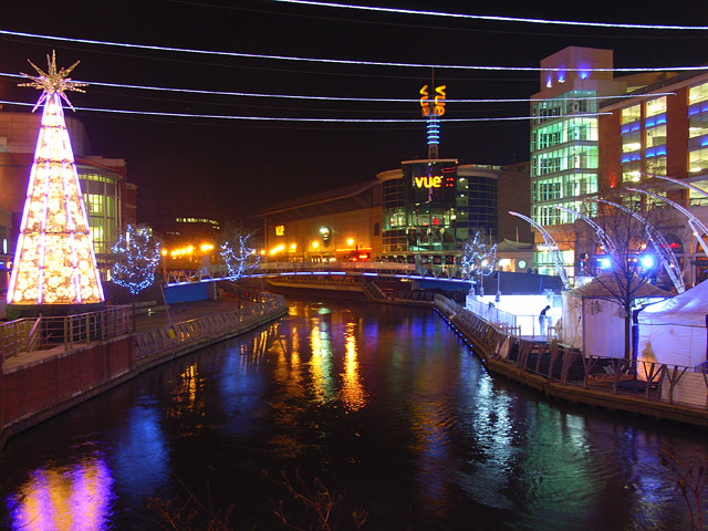 Christmas lights at The Oracle, Reading